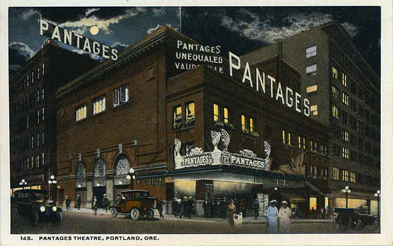 Caption on image: 145. Pantages Theatre, Portland, Ore. Sign in image: Pantages Unequaled Vaudeville. Printed on verso: Chas. S. Lipschuetz Company, Portland, Oregon; R-55698. Filed in: Oregon--Cities--Portland The Pantages Theatre was located on SW Broadway and SW Alder Streets from 1912 to 1926. Subjects (LCTGM): Theaters--Oregon--Portland; Postcards Subjects (LCSH): Pantages Theatre (Portland, Or.); Portland (Or.)--Buildings, structures, etc.